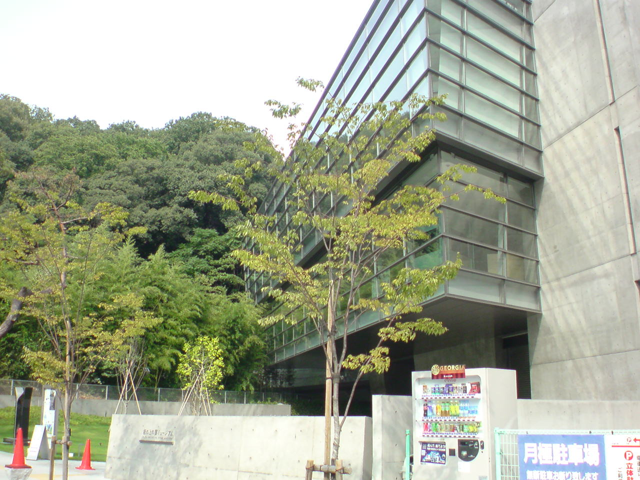 "Saka no ue no Kumo" Museum at Matsuyama city, Ehime pref., Japan. "Saka no ue no Kumo" is a novel written by Ryōtarō Shiba in 1968-72, that's set in Meiji era's Matsuyama.